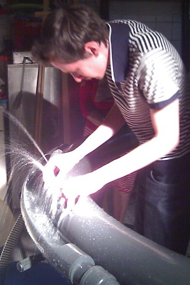 Joel Garten playing an experimental water-based musical instrument (hydraulophone).